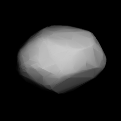 3D convex shape model of 725 Amanda, computed using light curve inversion techniques. J. Hanuš, J. Ďurech, M. Brož, B. D. Warner (June 2011). "A study of asteroid pole-latitude distribution based on an extended set of shape models derived by the lightcurve inversion method". Astronomy and Astrophysics 530: A134. ISSN 0004-6361. arXiv